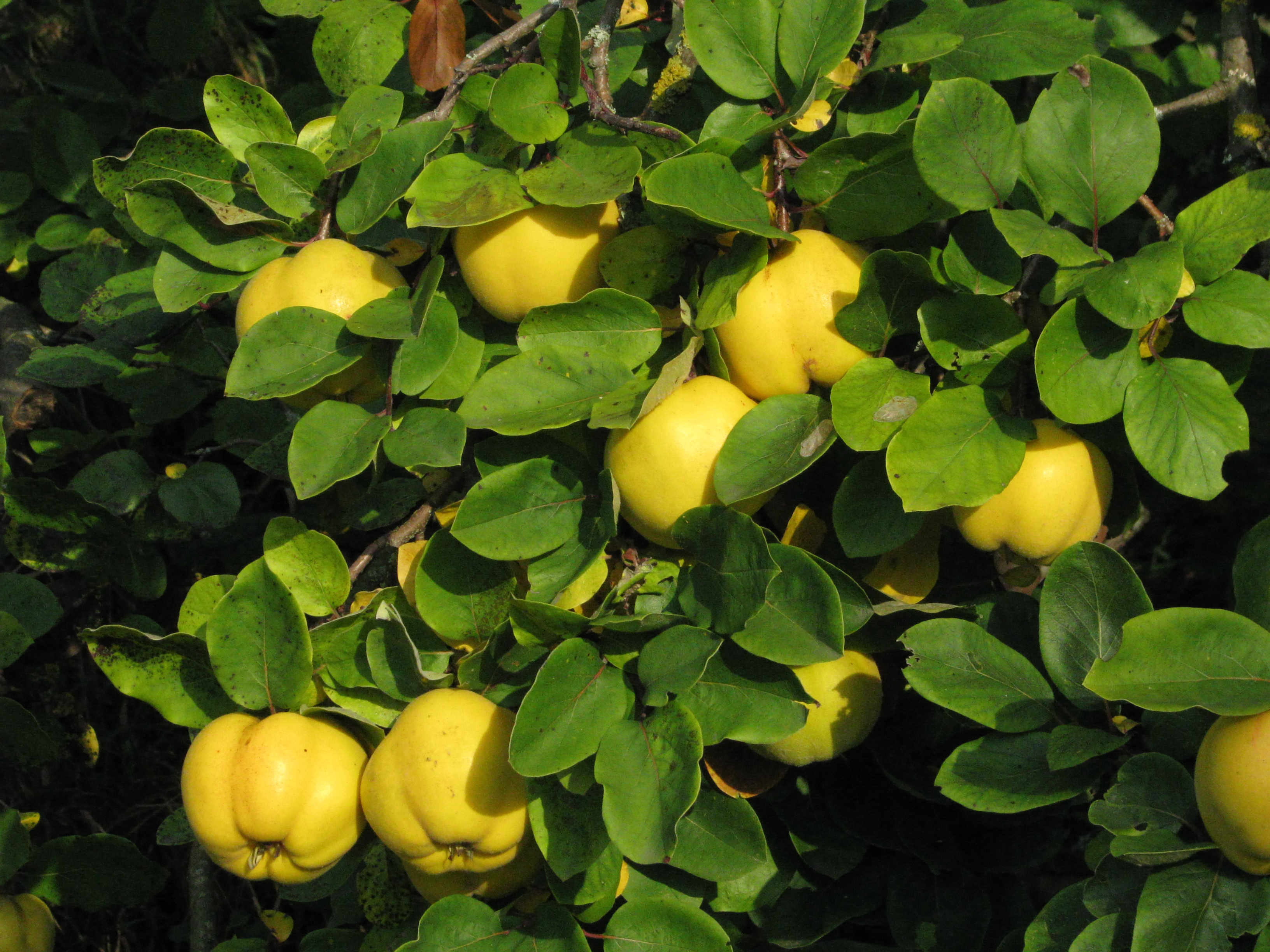 Quinces (cydonia oblonga), Sipplingen-Süßenmühle, district Bodenseekreis, Baden-Württemberg, Germany